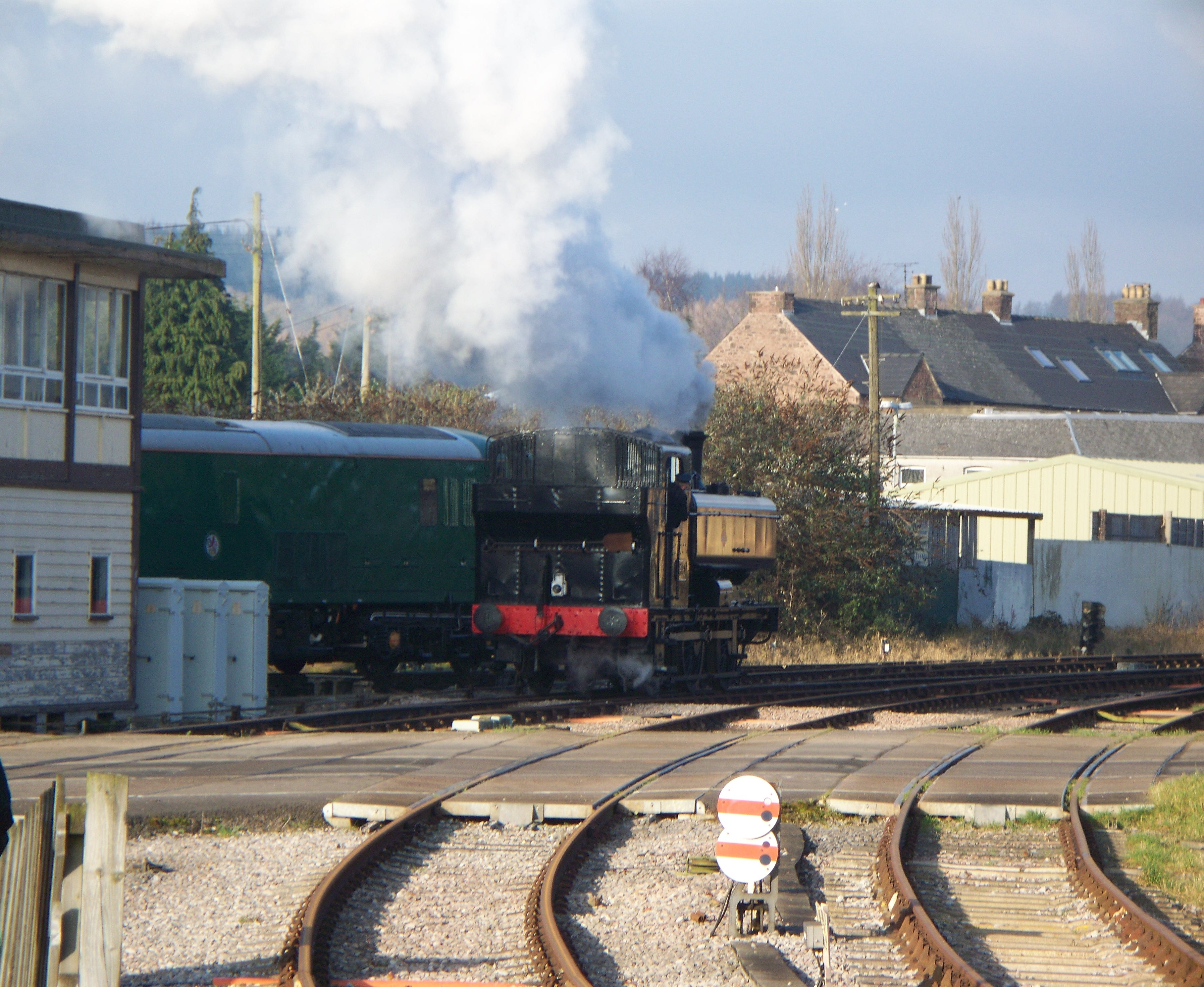 9681 north of Lydney Junction station.